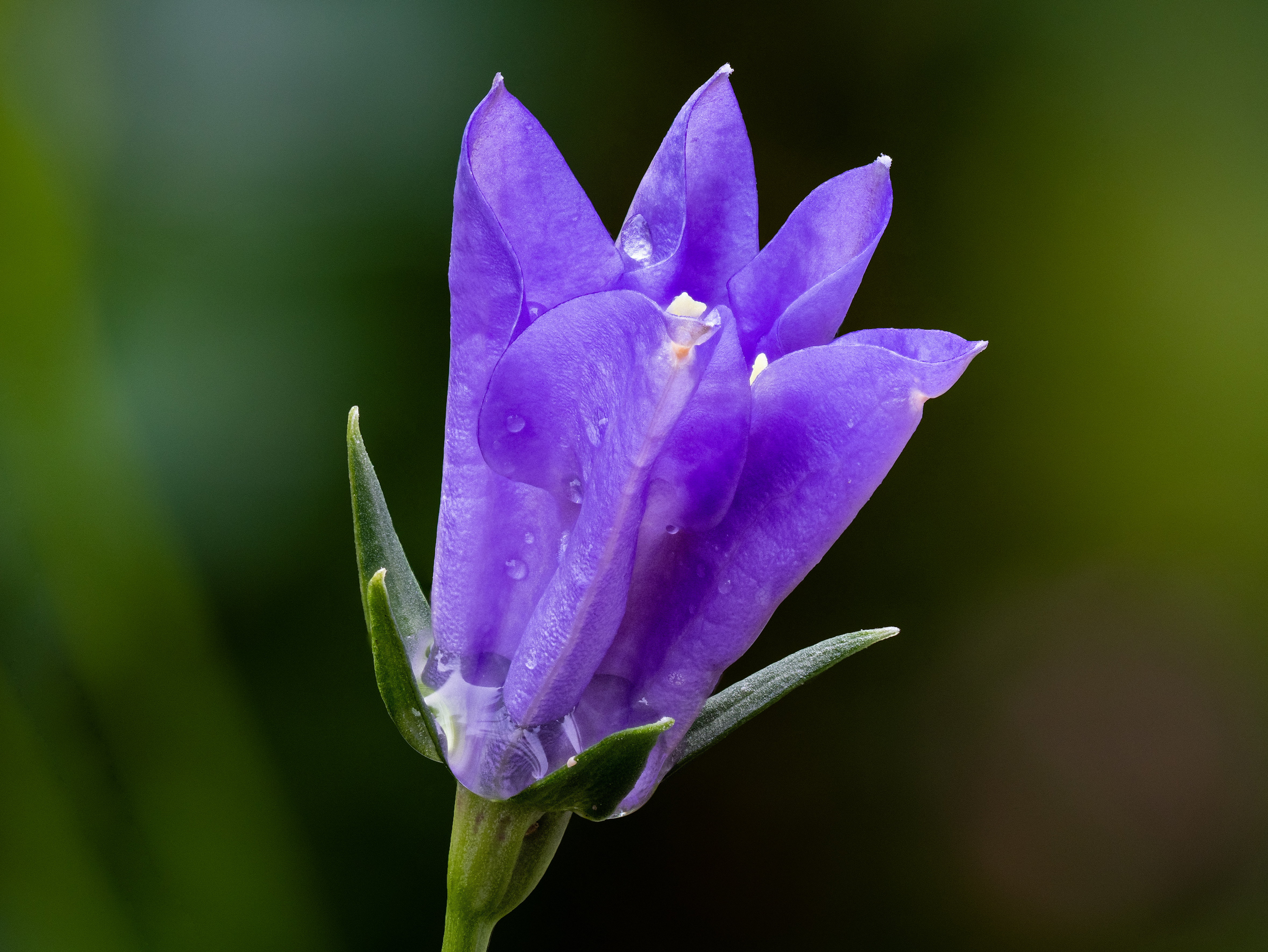 Peach-leaved bellflower just after opening